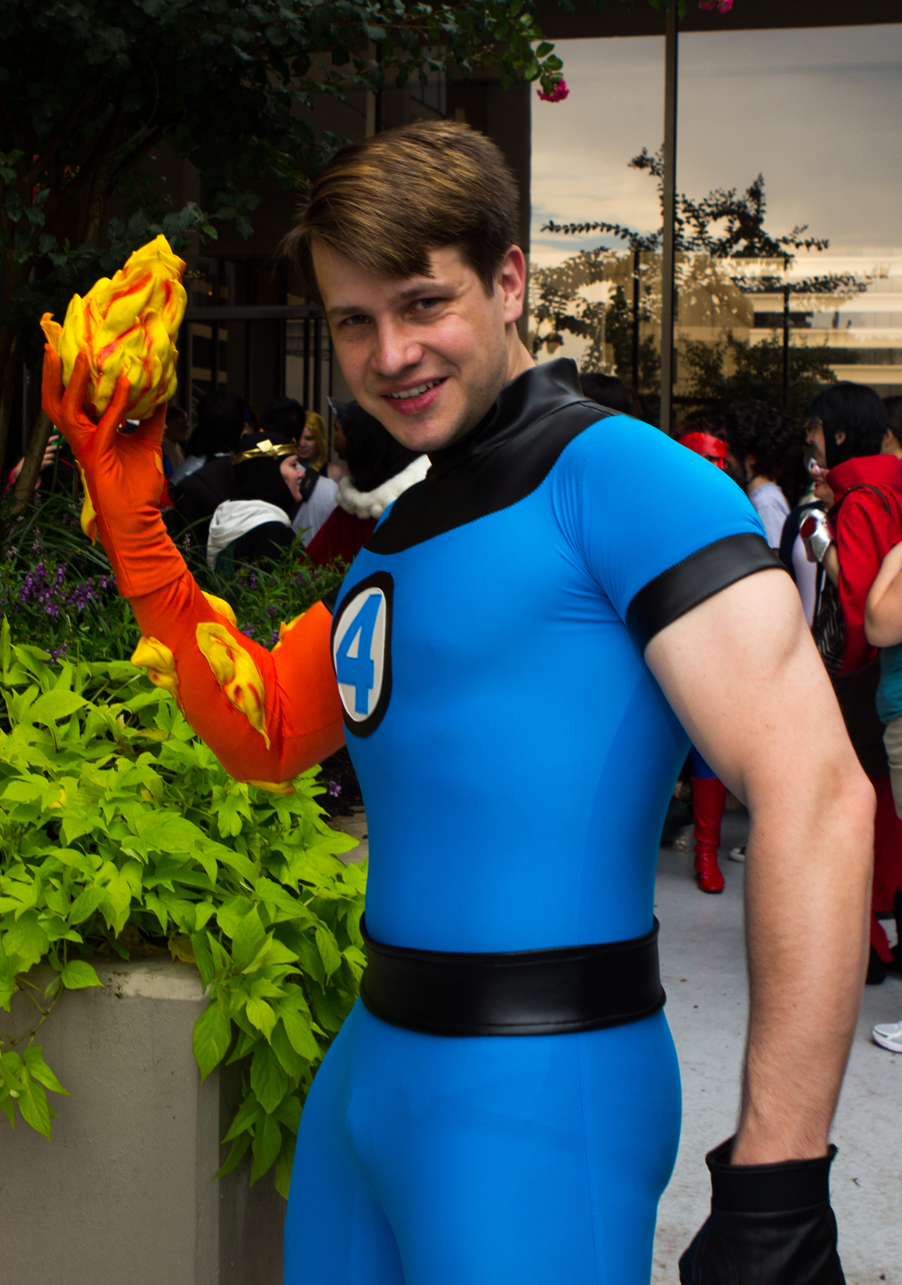 Dragon*Con 2013 Cosplay at Dragon*Con 2013.